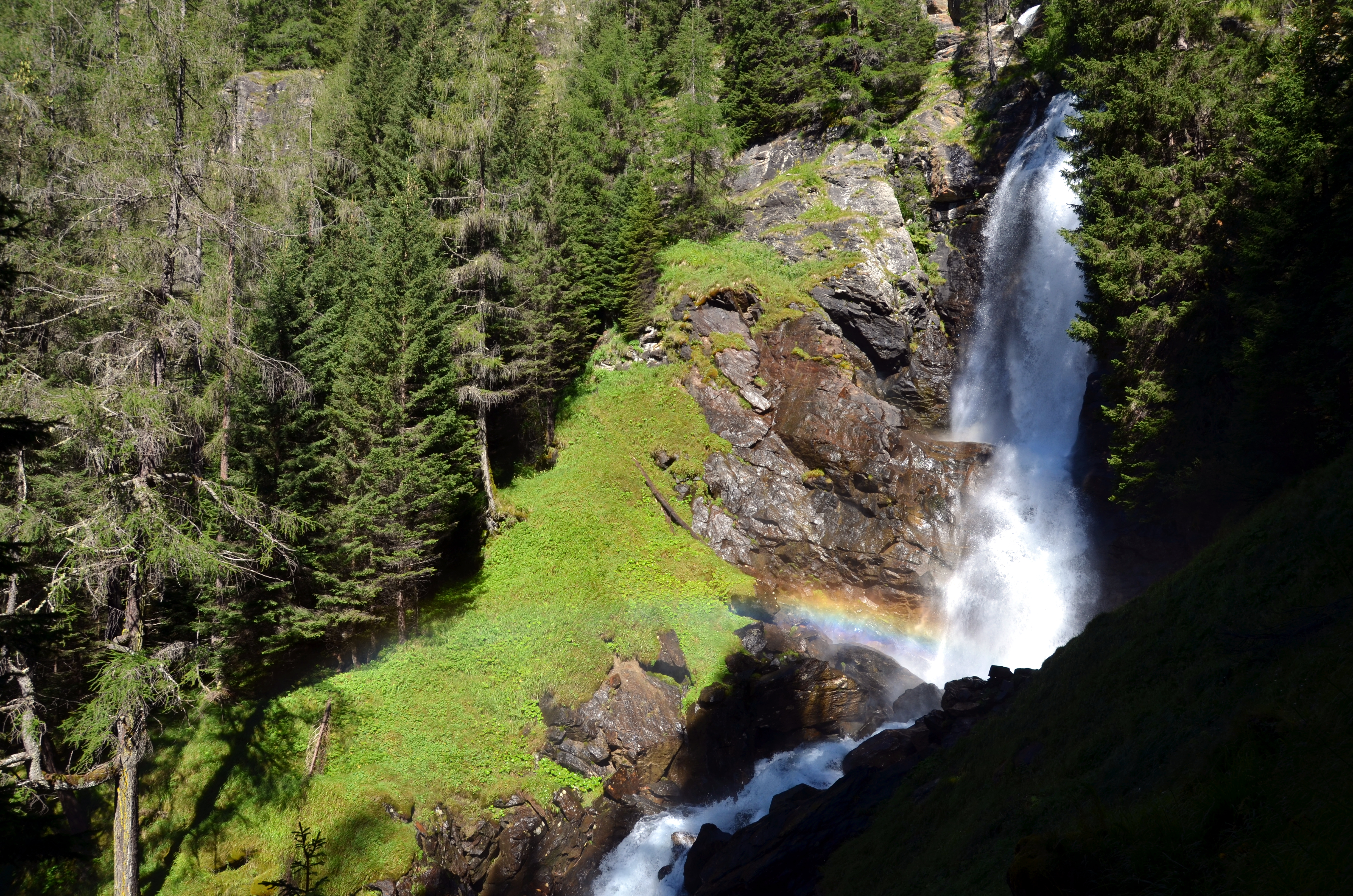 Saent Waterfall, Val di Rabbi